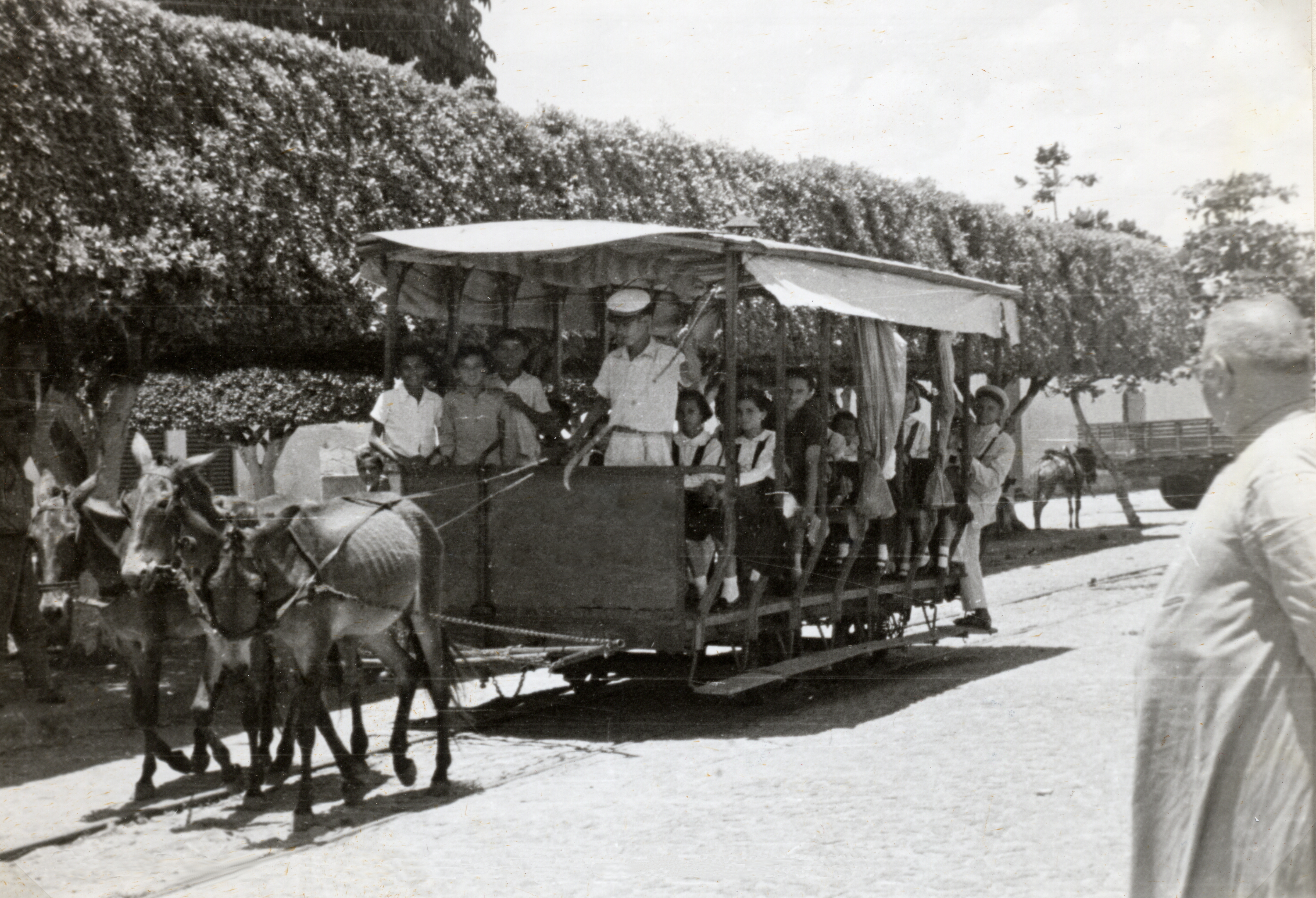 A streetcar pulled by three mules in Limoeiro-PE (Brazil) in 1951. The priest on the photo is Padre Otto Sailer from Taquaritinga do Norte-PE (Brazil).